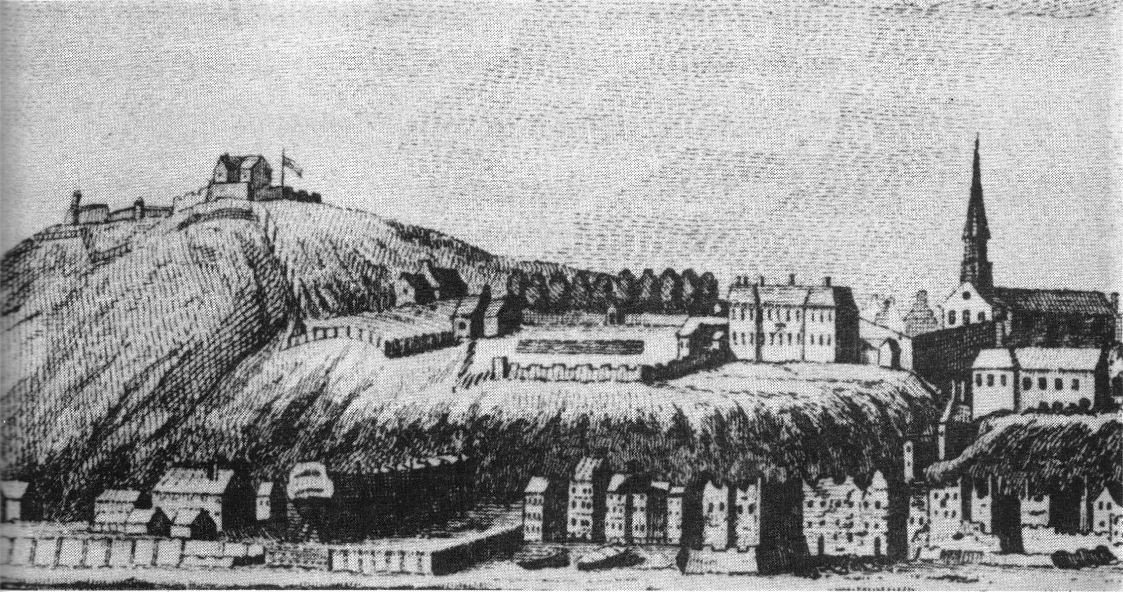 Quebec City by Hervey Smyth, circa 1760